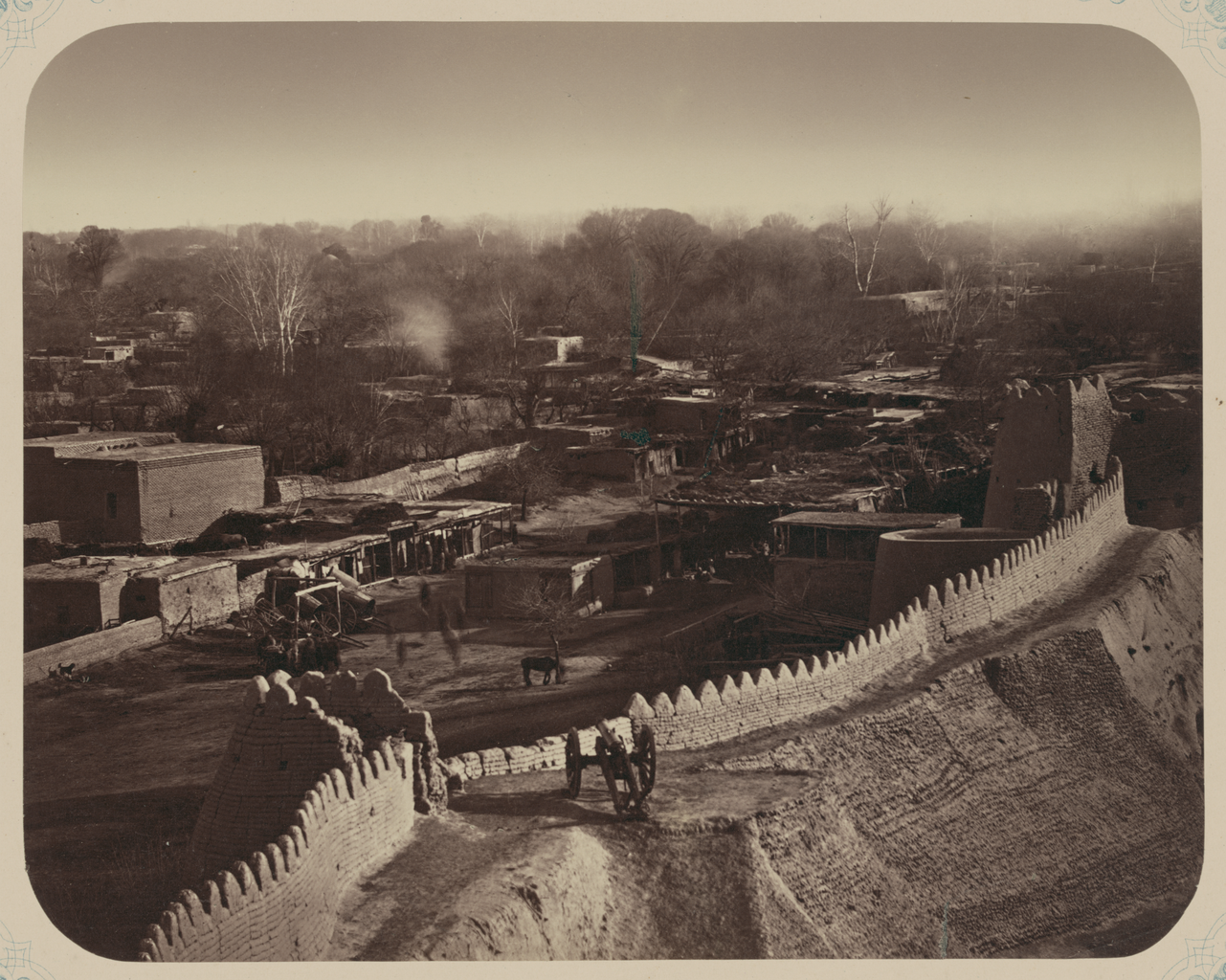 This photograph is from the ethnographical part of Turkestan Album, a comprehensive visual survey of Central Asia undertaken after imperial Russia assumed control of the region in the 1860s. Commissioned by General Konstantin Petrovich von Kaufman (1818–82), the first governor-general of Russian Turkestan, the album is in four parts spanning six volumes: “Archaeological Part” (two volumes); “Ethnographic Part” (two volumes); “Trades Part” (one volume); and “Historical Part” (one volume). The principal compiler was Russian Orientalist Aleksandr L. Kun, who was assisted by Nikolai V. Bogaevskii. The album contains some 1,200 photographs, along with architectural plans, watercolor drawings, and maps. The “Ethnographic Part” includes 491 individual photographs on 163 plates. The photographs show individuals representing the different peoples of the region (Plates 1–33); daily life and rituals (Plates 34–91); and views of villages and cities, street vendors, and commercial activities (Plates 92–163). Bazaars; Cannons; Cities and towns; City walls; Ethnographic photographs; Forts and fortifications; Markets; Photographic surveys; Plazas